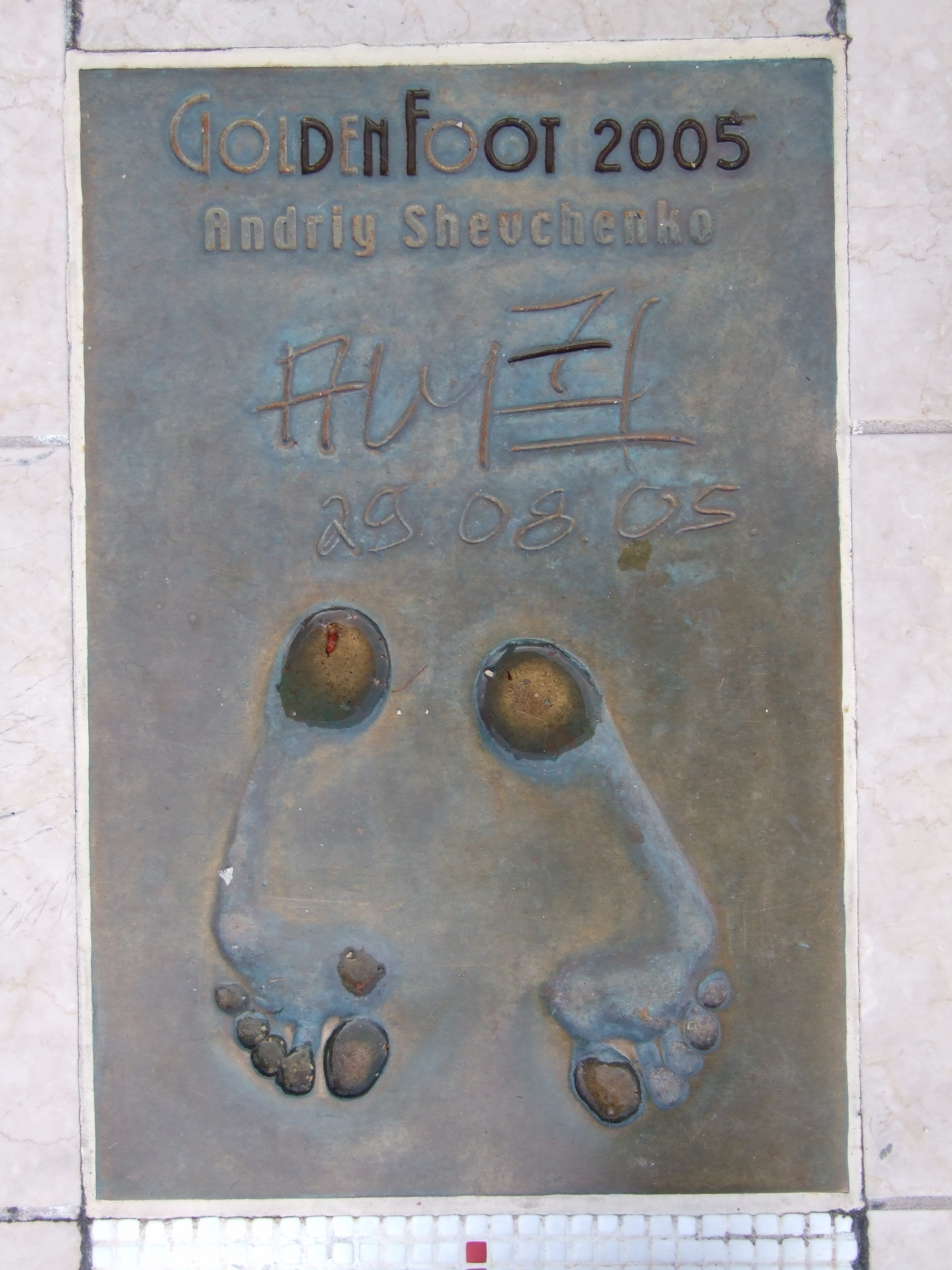 Andriy Shevchenko's footprint on The Champions Promenade "Golden Foot" in Monaco, 2005.